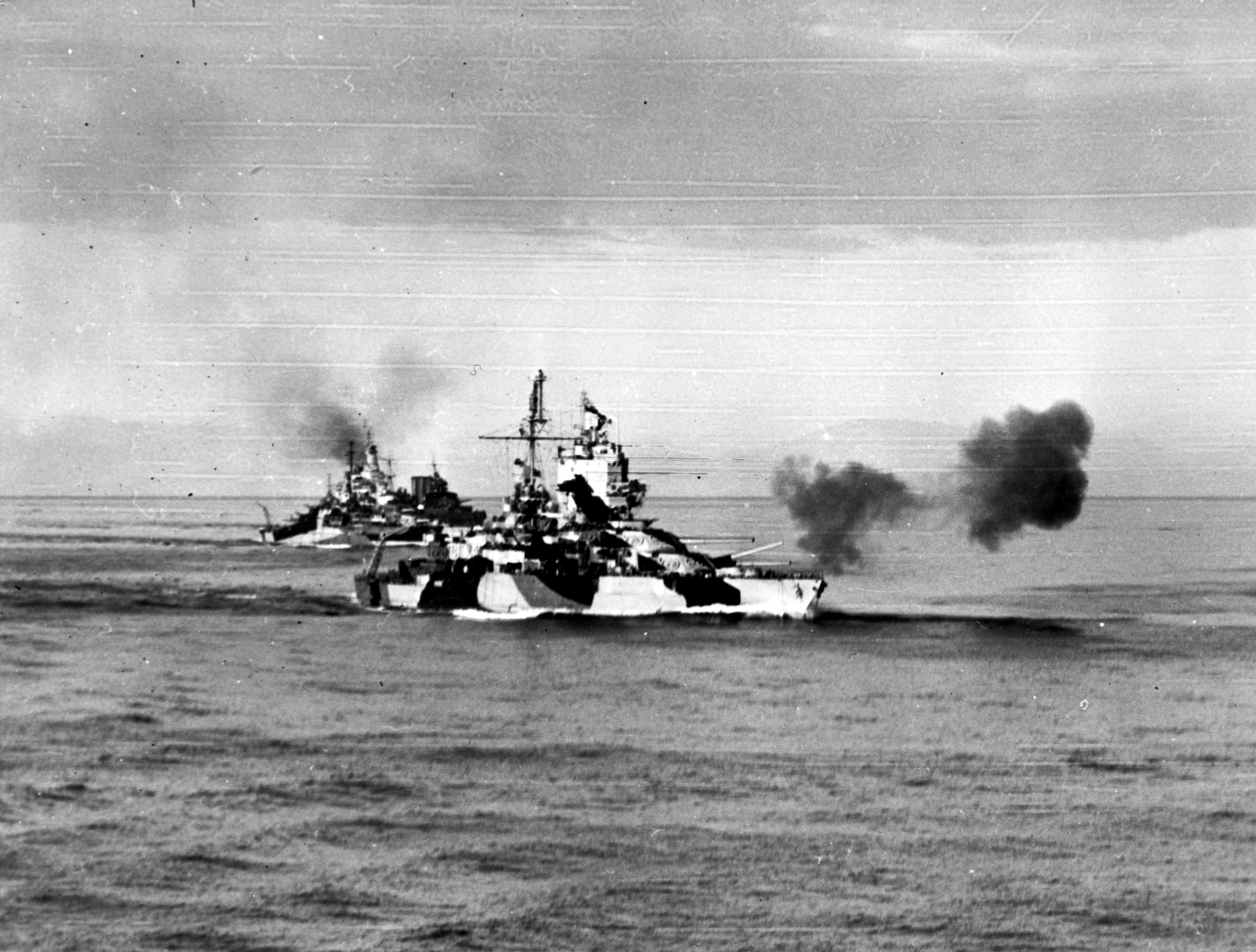 The U.S. Navy battleship USS Mississippi (BB-41) bombarding Luzon, during the Lingayen operation, 8 January 1945. She is followed by USS West Virginia (BB-48) and HMAS Shropshire (73). Mississippi is painted in camouflage Measure 32, Design 6D.